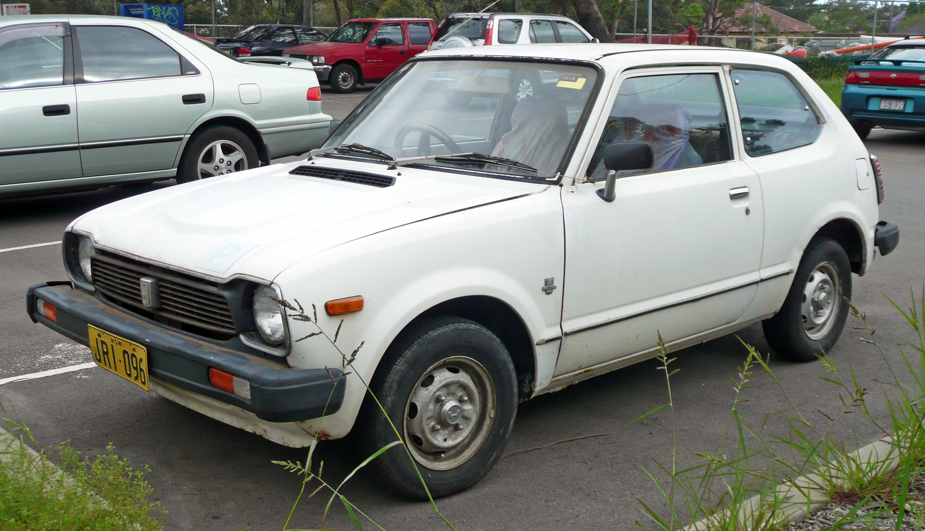 1978 Honda Civic 3-door hatchback. Photographed in Kirrawee, New South Wales, Australia.